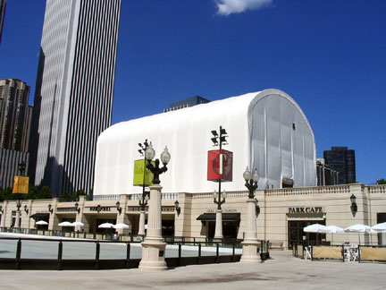 Cloud Gate is covered by a tent as construction resumes